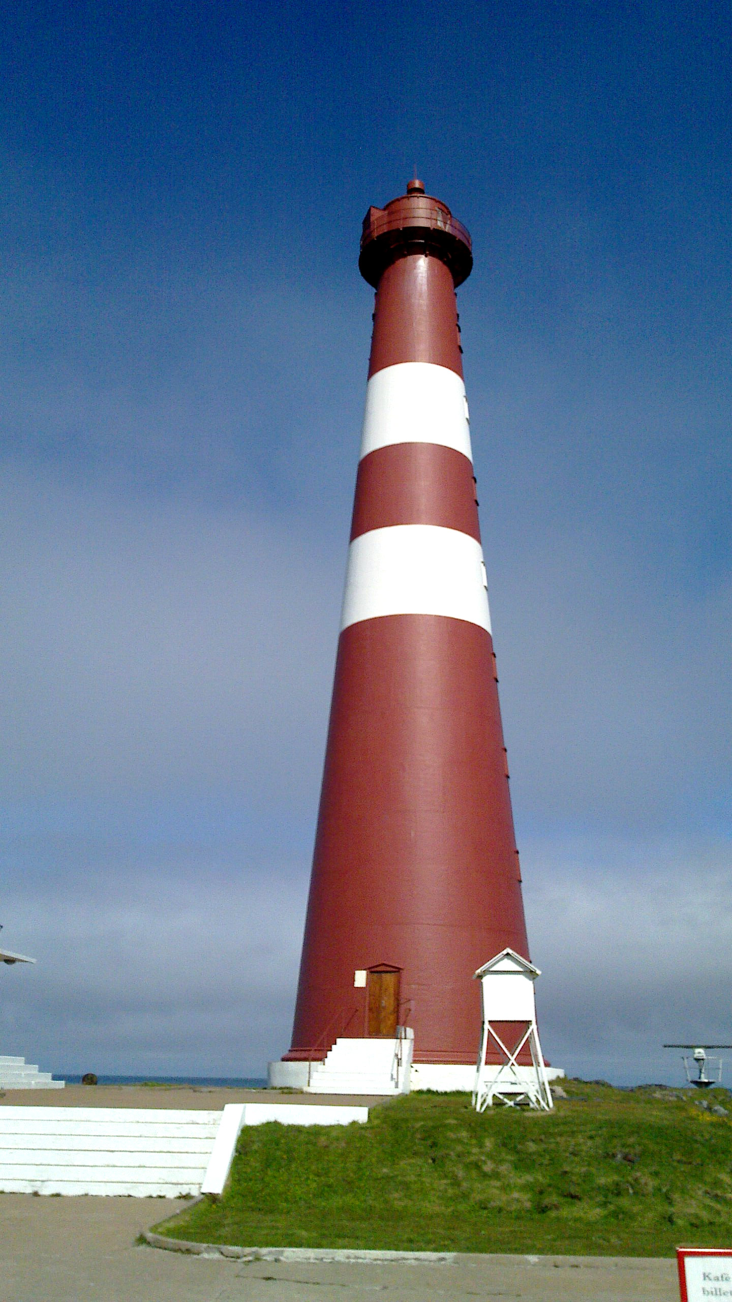 Slettnes / Gamvik / Nordkinnpeninsula / Finnmark / Norway